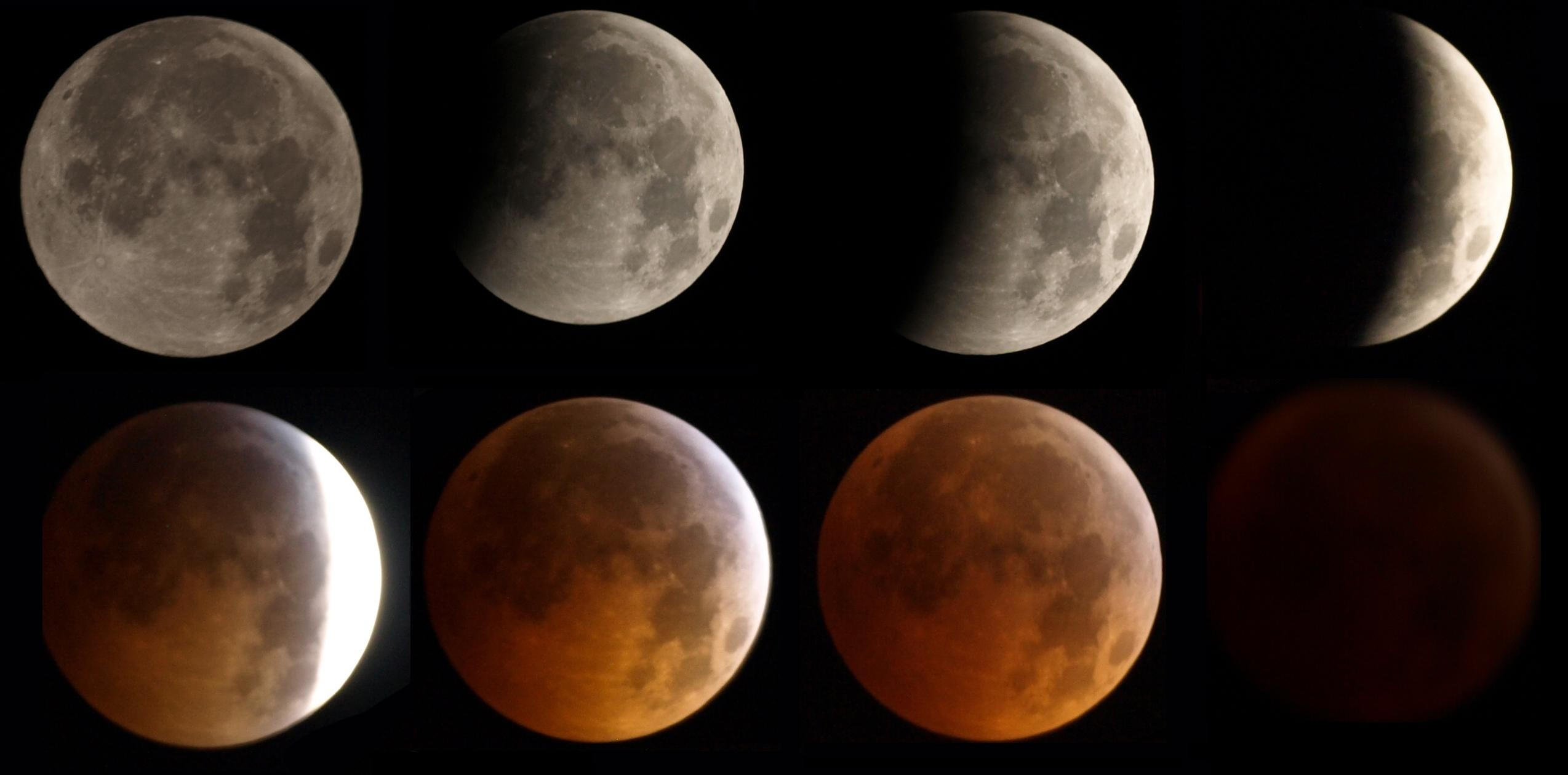 Sequence of the December 21, 2010 Lunar Eclipse. Each shot in the first part of the sequence is in 15 minute increments, with 5 minute increments up until totality at 3:17am EST. Shot from Toronto, ON. Picture taken with an Olympus E-510 with a 600ml-equivalent lens.